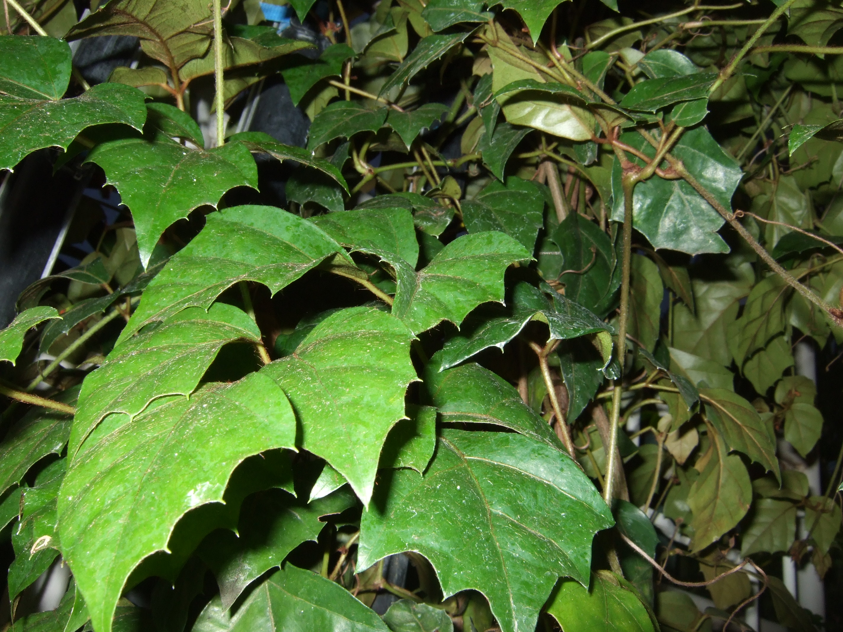 Grape ivy or Cissus rhombifolia in Oulu University Botanical Gardens, Finland.